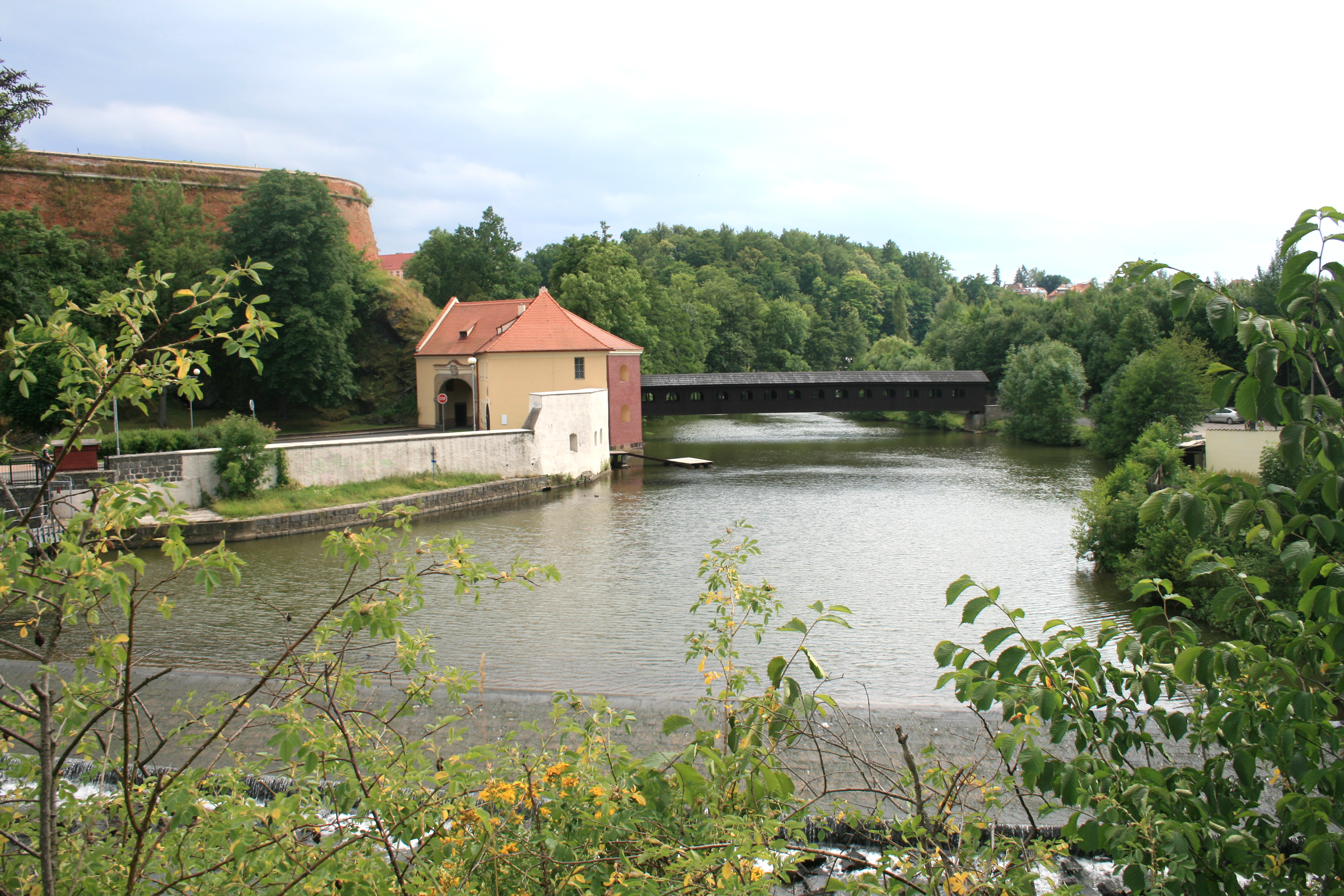 Wooden covered bridge over Ohře river in Cheb, west of Czech Republic